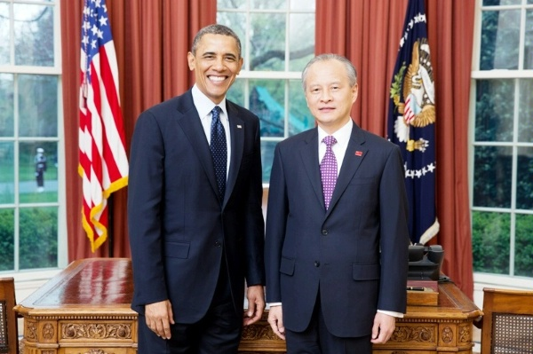 President Barack Obama receives Ambassador to the People's Republic of China Cui Tiankai, during an Ambassador Credentialing Ceremony in the Oval Office.